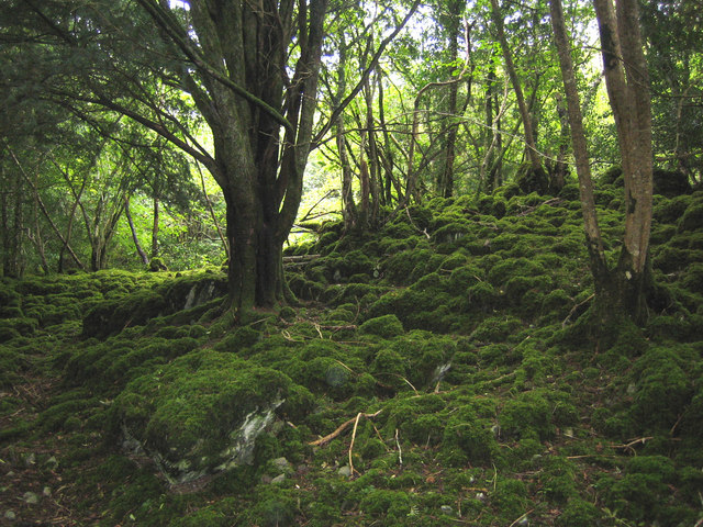 Reenadinna Yew Wood. The Killarney National Park notice board about this wood reads: The Yew Wood is unique in Ireland and one of only three in Europe and is the rarest habitat type in the Killarney National Park. It is listed under Annex 1 of the E.U. Habitats Directive as a Priority Habitat. The wood covers approximately 60 acres (25 hectares) and the trees are rooted into fissures in the bare limestone and some are over 200 years old. The trees cast a dense shade, resulting in very little ground flora, but the bryophyte layer (mosses and liverworts) is abundant. Curiously the title on the notice board calls the wood "Rennadinna", but a Google search provided no references to this word. A Google search for "Reenadinna" however provided many with references to this woodland, so I have used that in the title to this submission. Geographical data: Subject Location Irish: V 959 861 [100m precision] WGS84: 52:1.0470N 9:31.0459W View Direction NORTH (about 0 degrees)